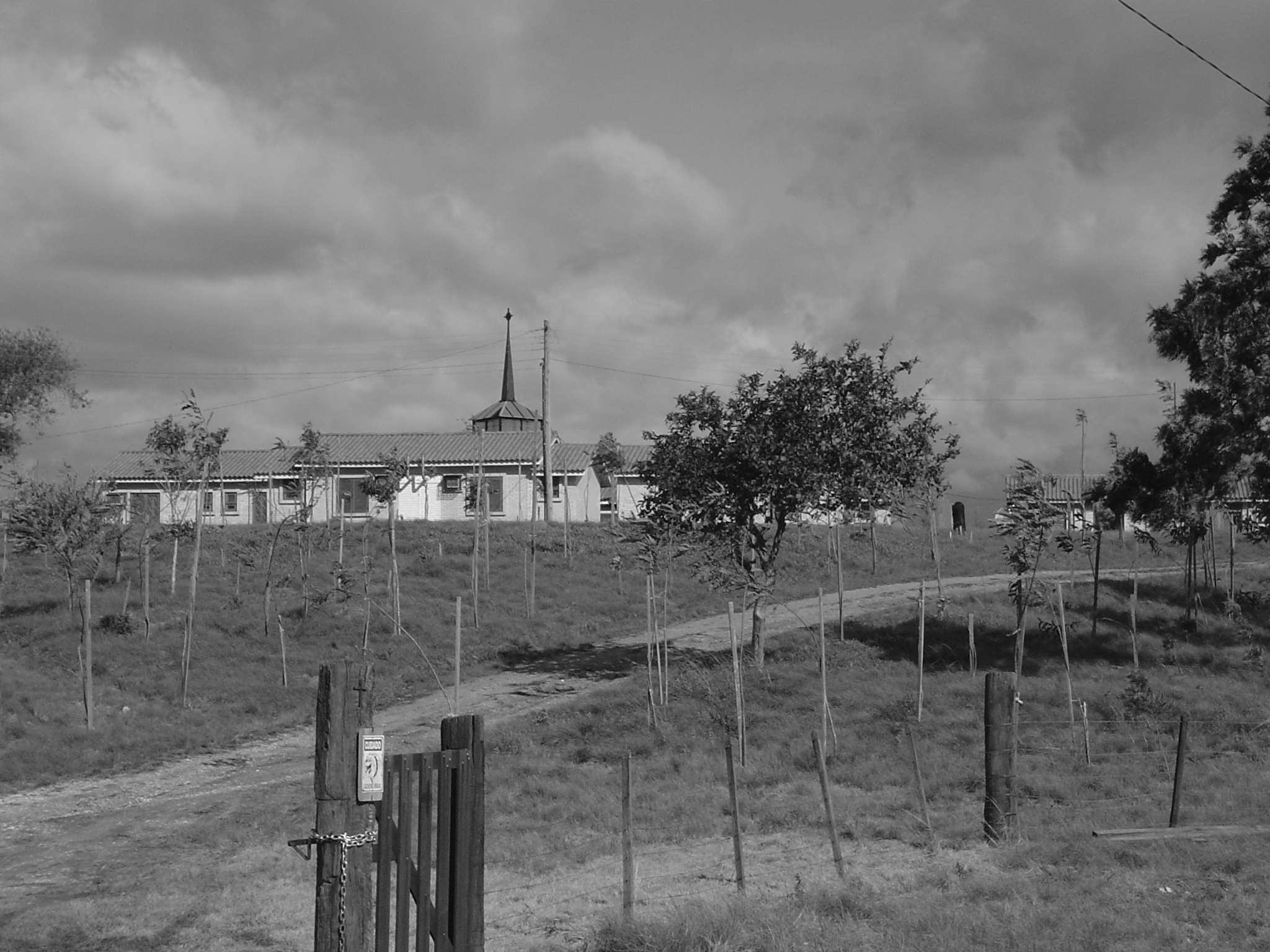 Photo of the Monastery of Our Lady of Nazareth - Brasil